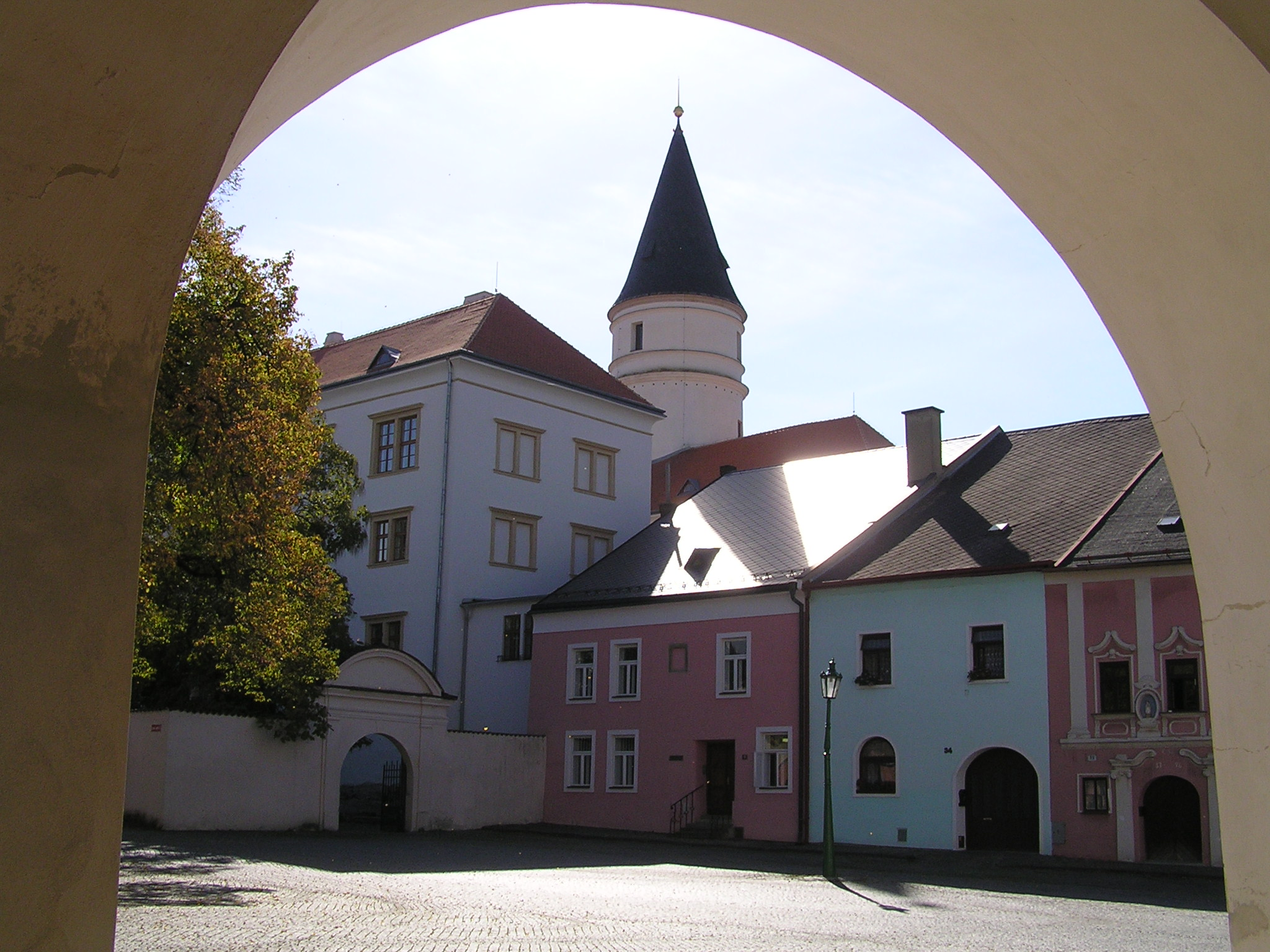 Upper Square in Přerov, Czech Republic